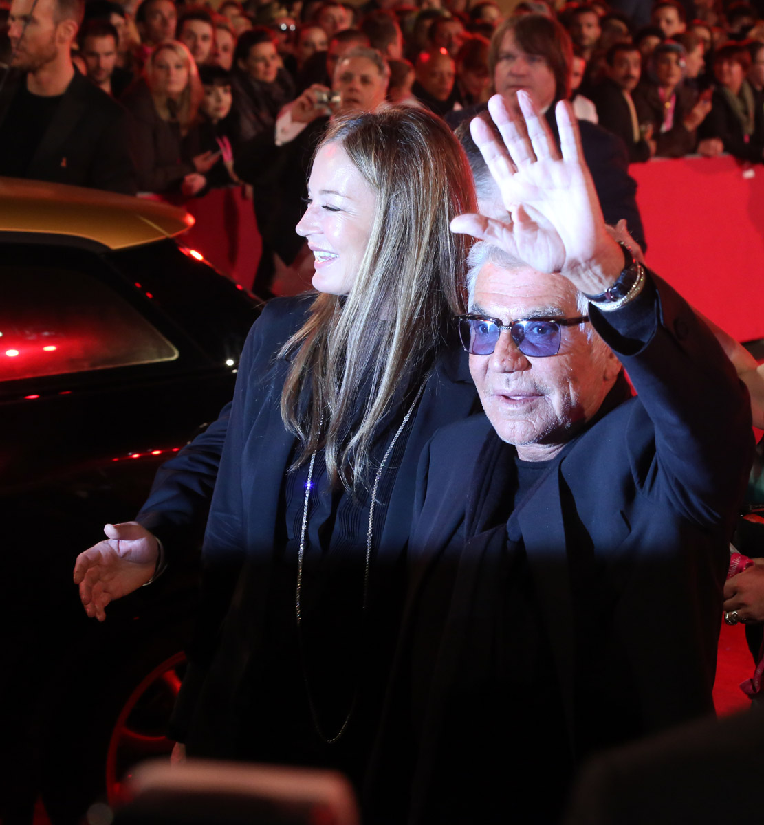 Eva and Roberto Cavalli on the 'magenta carpet' at Life Ball 2013 at the square in front of the city hall of Vienna, Vienna, Austria.